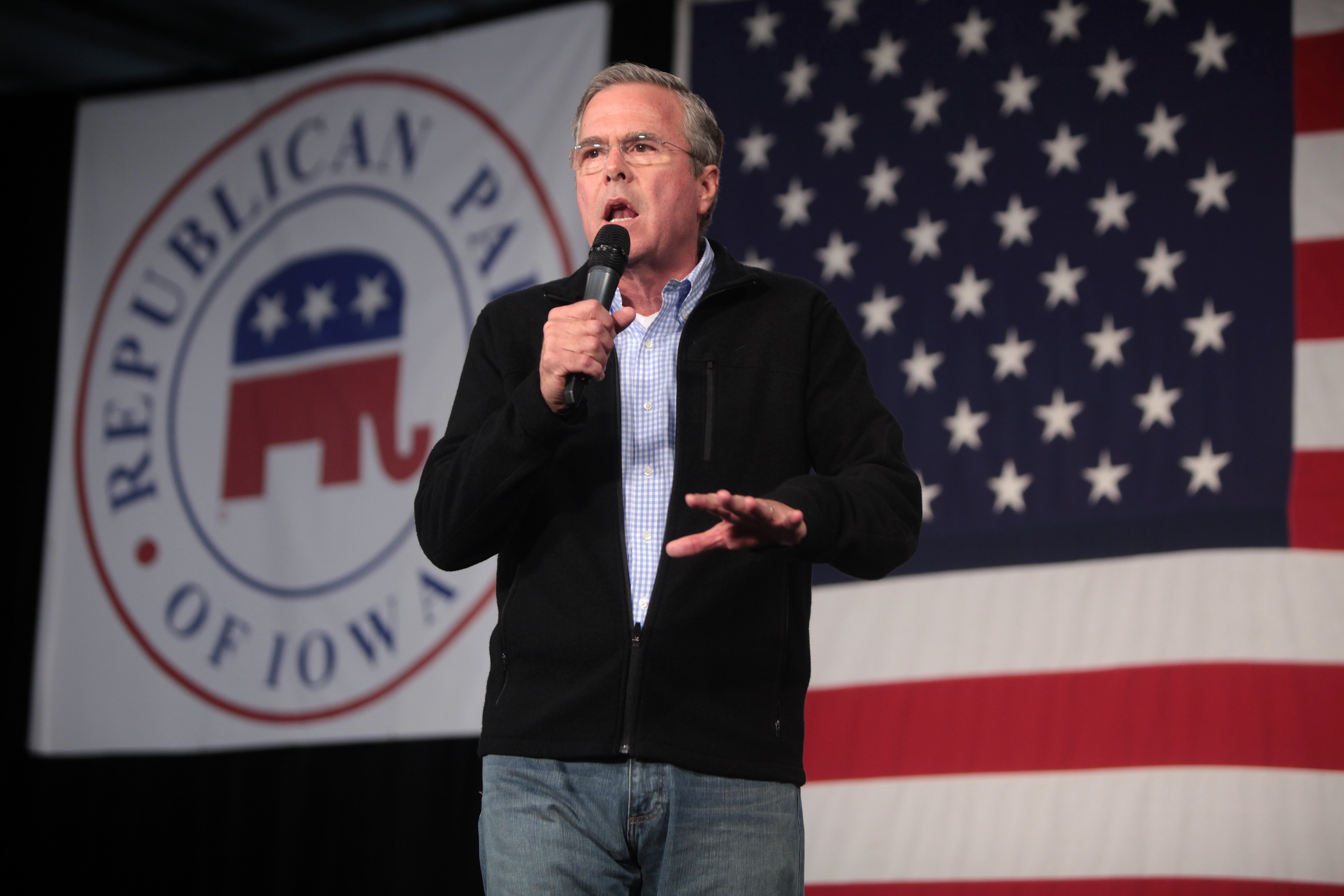 Former Governor Jeb Bush speaking with attendees at the 2015 Iowa Growth & Opportunity Party at the Varied Industries Building at the Iowa State Fairgrounds in Des Moines, Iowa.